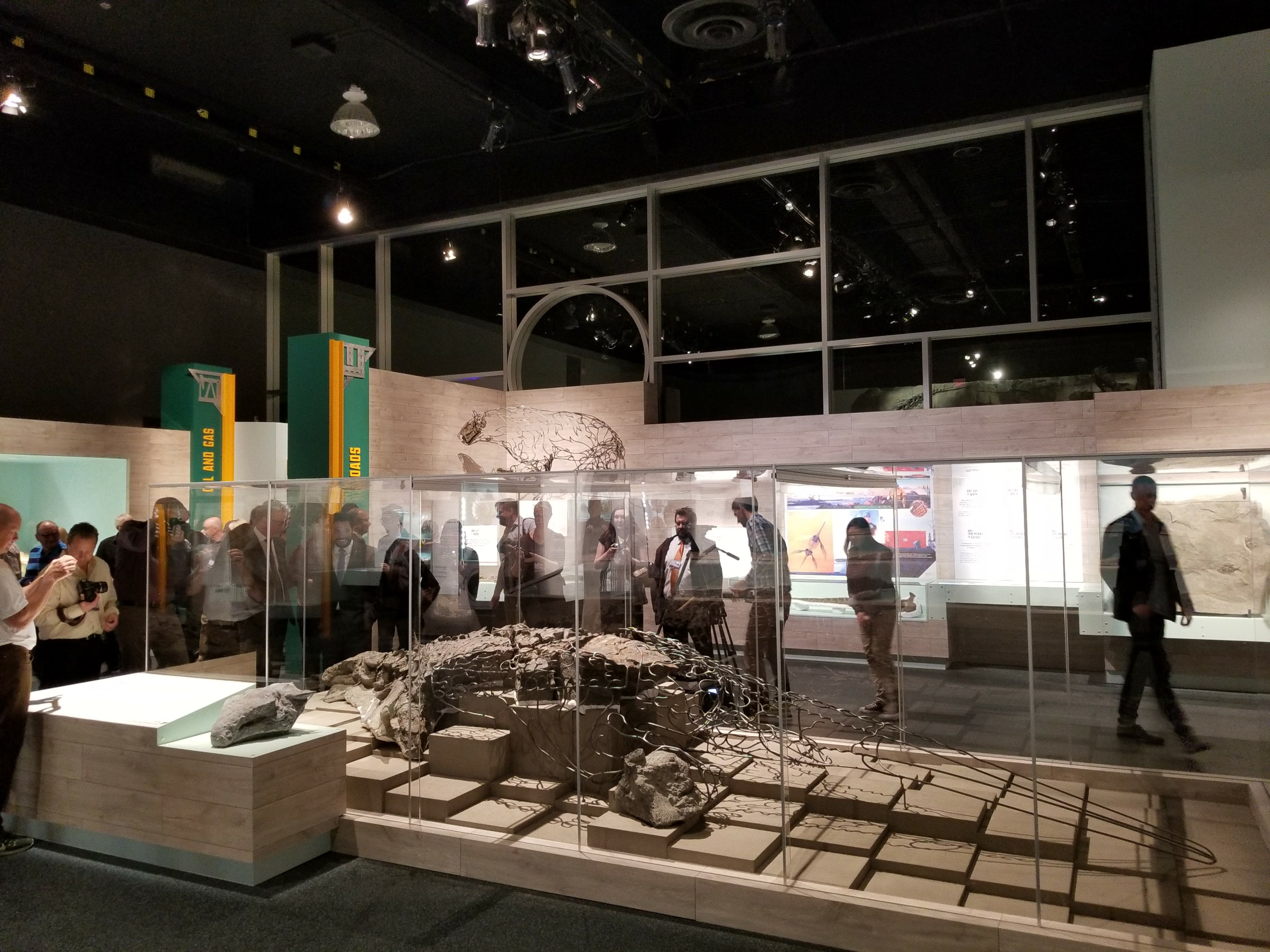 An airtight case was constructed around the Nodasaur. The half of the specimen that is missing was filled in by a see-through metal wire sculpture to show the scale.